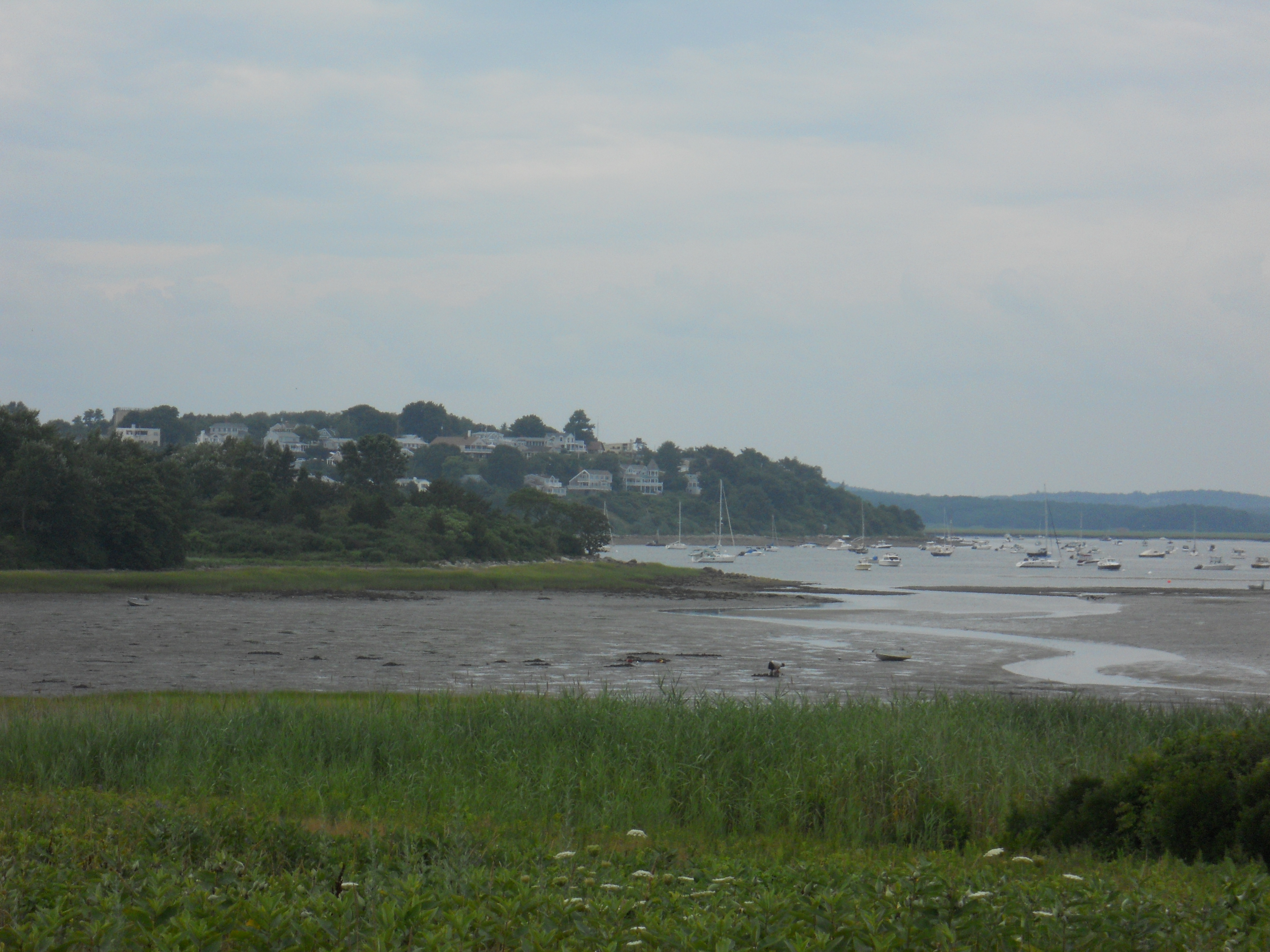 View north from Stage Island, which borders on Sandy Point State Reservation. Jeffrey's Nech in background. Stage Island to left. Stage Island Creek in foreground with individual clammer.